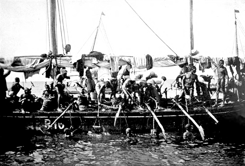 Arab pearl-divers at work in the Persian Gulf from: George Frederick Kunz, The Book of the Pearl